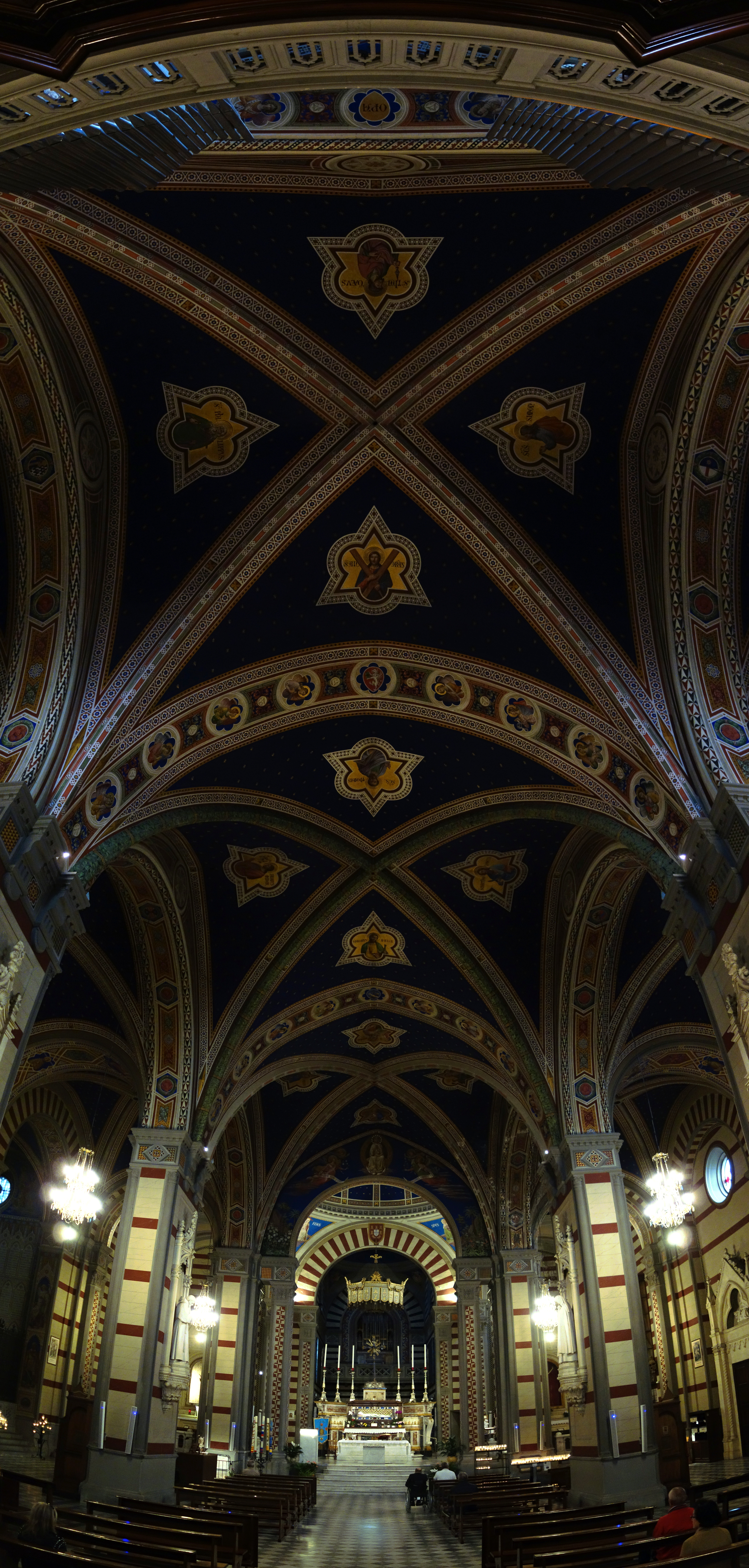 The interior of the Basilica of Santa Margherita in Cortona, Italy, as seen from its main entrance.